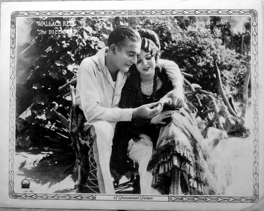 Lobby card for the American comedy drama film The Dictator (1922).